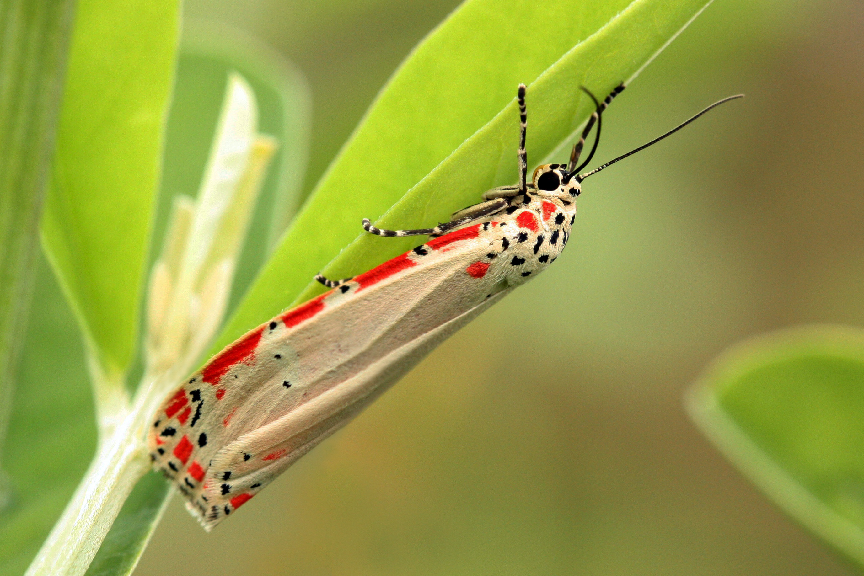 Ornate moth (Utetheisa ornatrix), Tobago